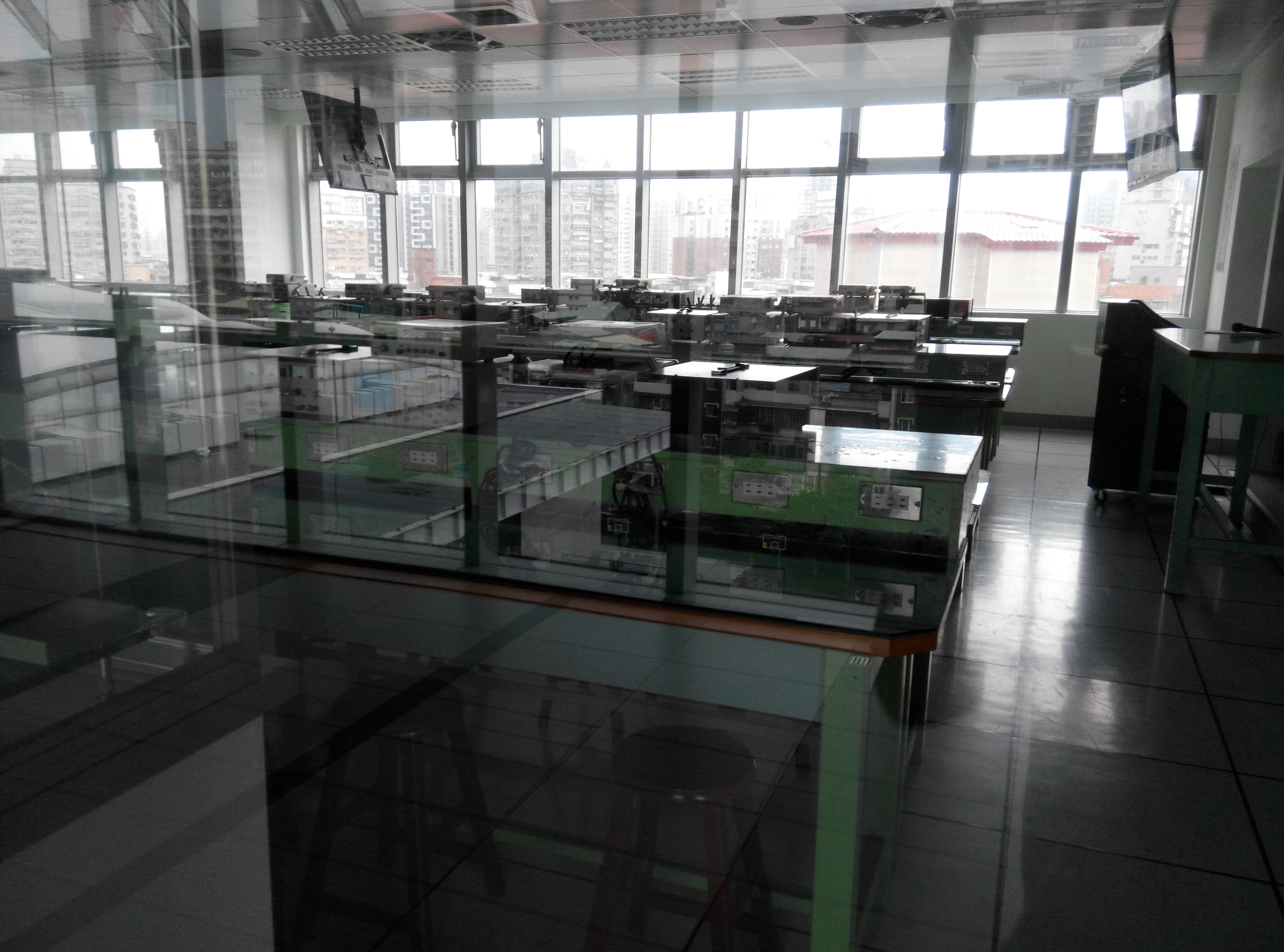 The photo was taken by myself in the seventh floor of the science building. Inside it there are lots of circuit board relative equipment